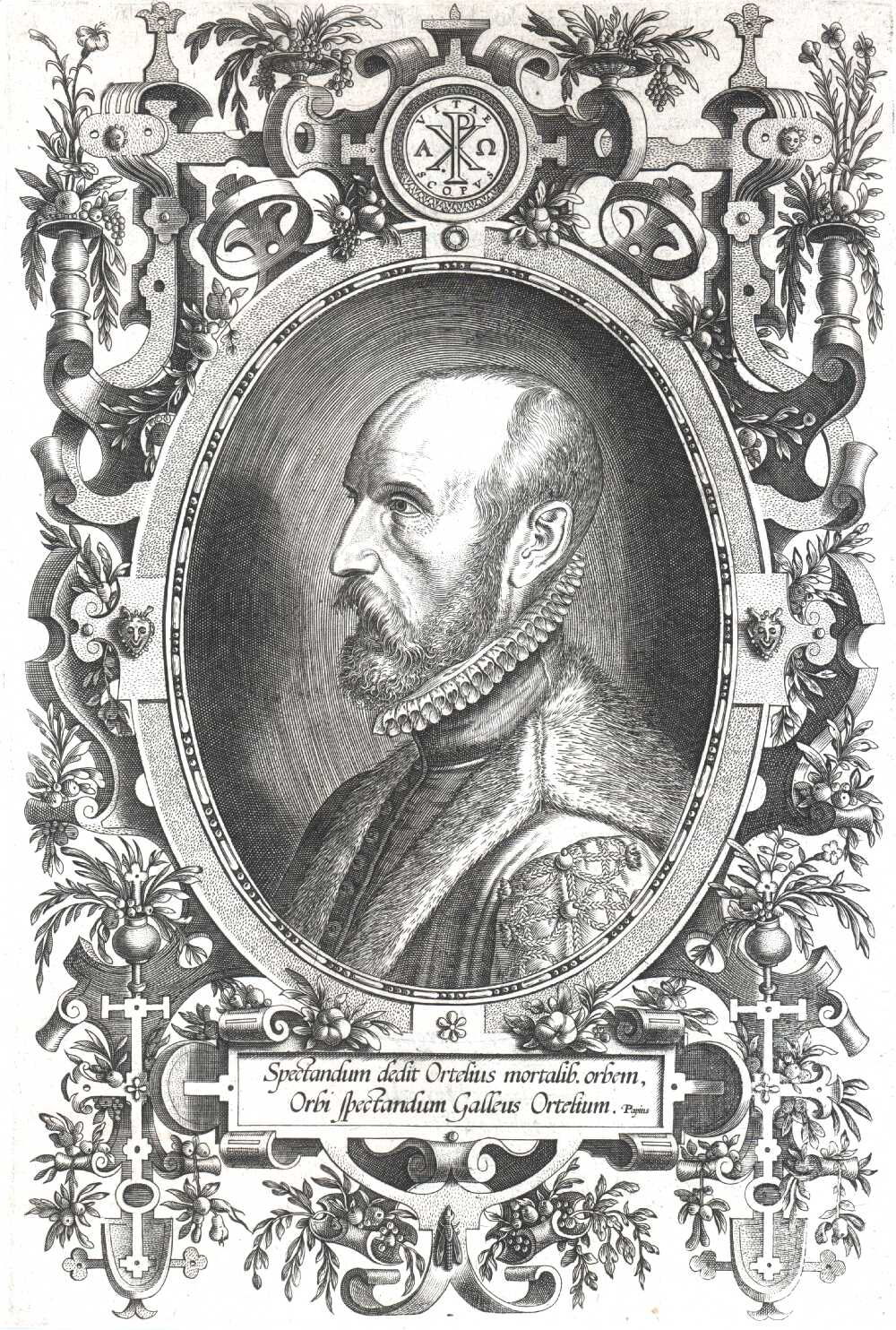 from here